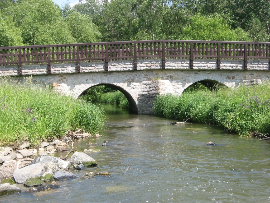 River Weida in Läwitz, Germany